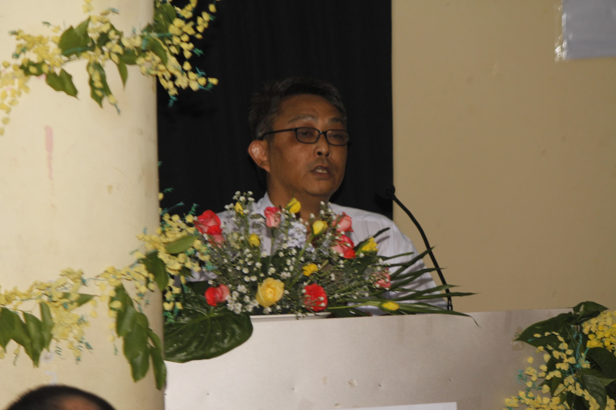 Dr. Nay Win Maung gives speech to the students during a graduation ceremony in Yangon, Myanmar on 9 April 2011.